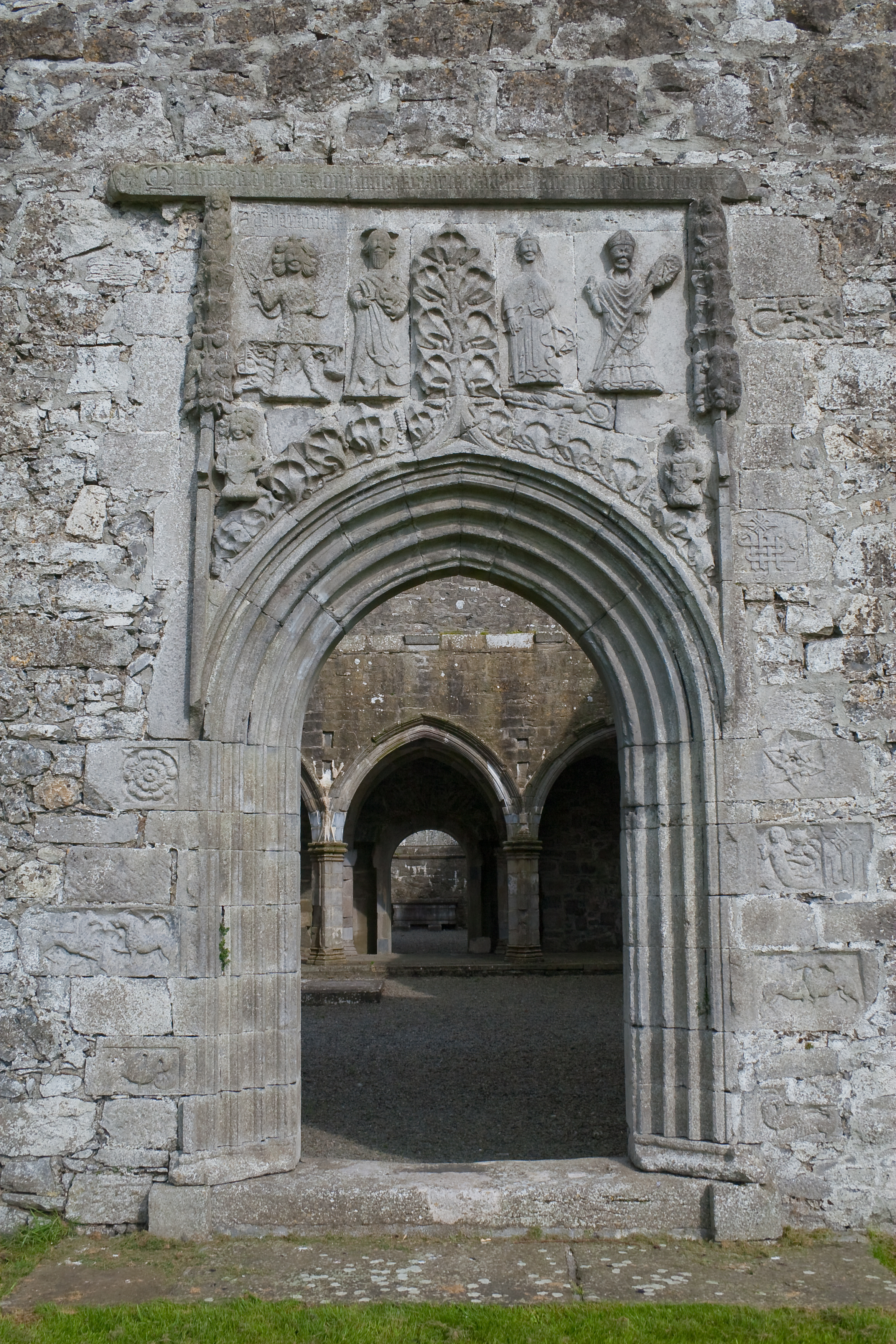 Clontuskert Priory, County Galway, Ireland Ornate western doorway of the nave, depicting St Michael, weighing souls, St John, St Catherine, a bishop, and various other carvings including a pelican and a mermaid.